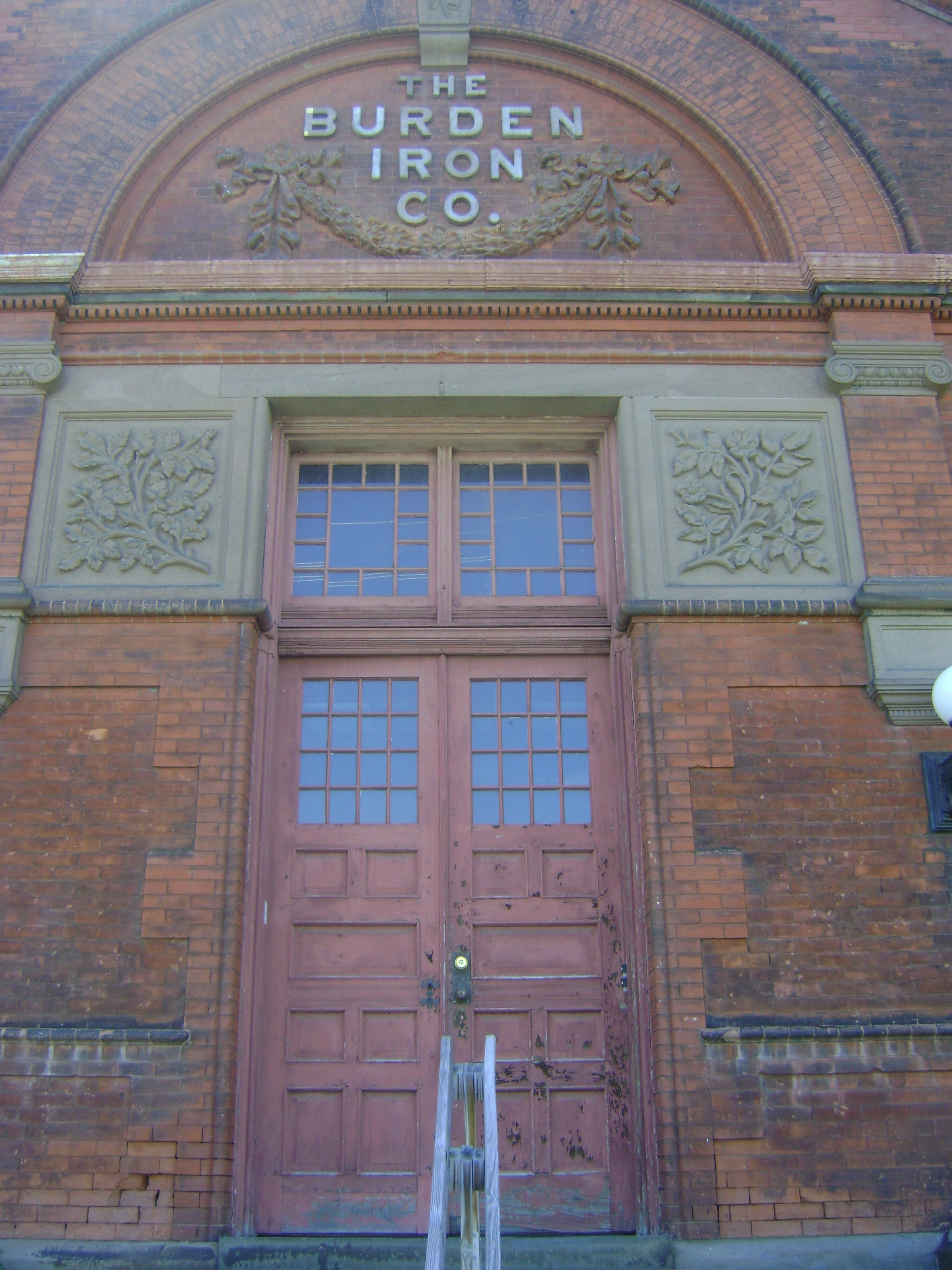 The entrance to the original office of the Burden Iron Works in Troy, NY. A small museum is hosed here. It is listed on the NRHP.